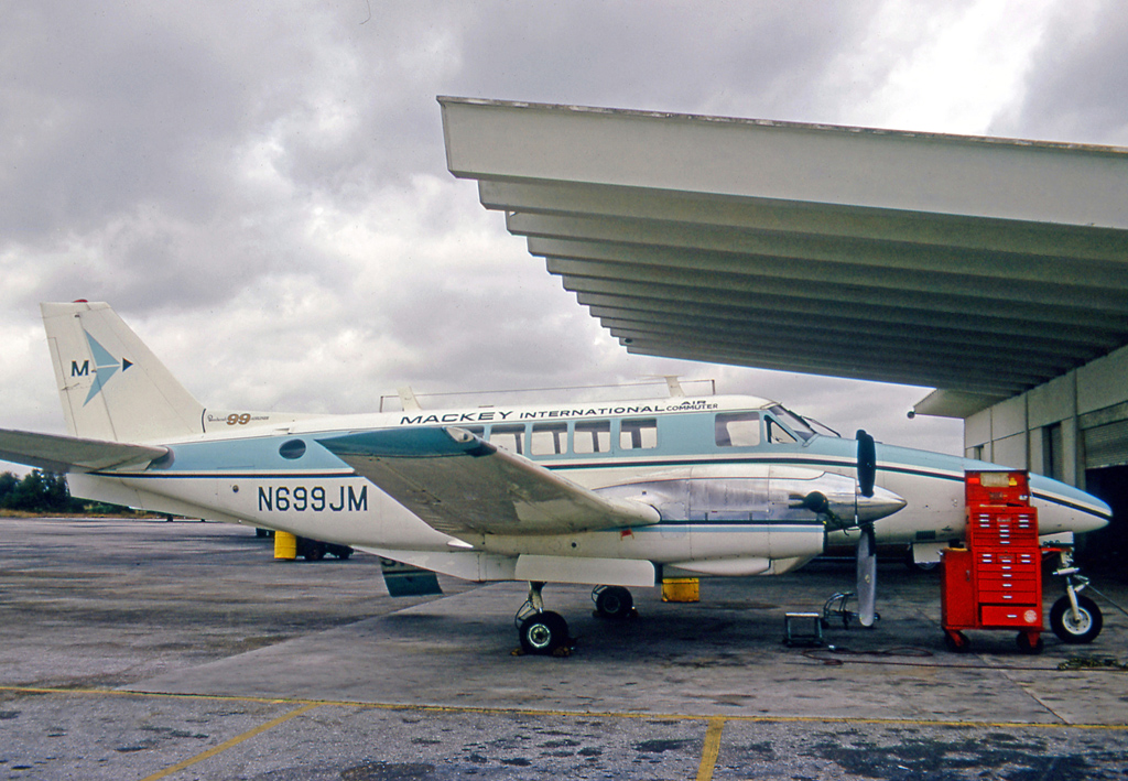 Beech 99 N699JM of Mackey International Air Commuter at Fort Lauderdale International in 1971